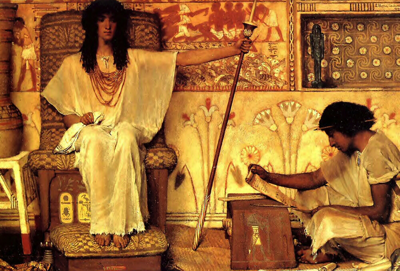 Joseph Overseer of the Pharoahs Granaries, by Sir Lawrence Alma-Tadema, oil on canvas